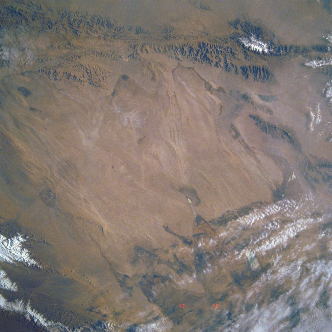 Image Caption: STS040-613-011 Qaidam Basin, China June 1991 This mostly east-looking view [here rotated to place north at the top] shows the Qaidam Basin. Located in the Northern Tibetan Plateau, the Qaidam Basin sets between two branches of the Kunlun Mountains. To the north (left edge) are the Altun Mountains and to the south (right edge) are the Qimantag Mountains. The arid basin is 350 miles (560 km) long and 100 miles (160 km) wide. A salt marsh occupies most of the basin. Oil fields and refineries are located in the west part (bottom center) of the basin. Iron ore is mined in the southern part of the basin. Coal deposits have been found in the Qaidam Basin. Cooler climate crops such as wheat, highland barley, millet, and potatoes are grown during the short, cool summer months.